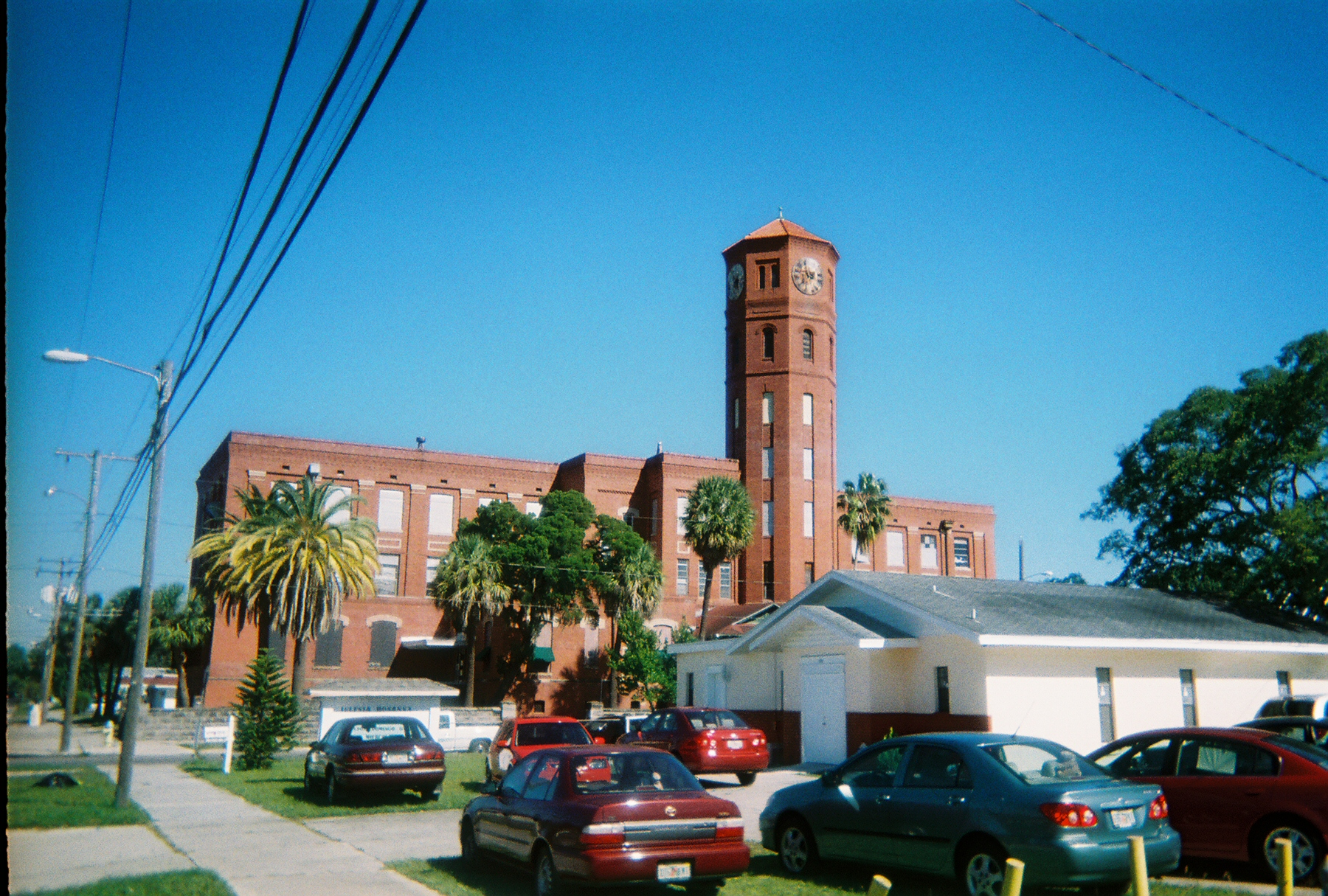 Tampa, Florida: West Tampa Historic District: Former Samuel L. Davis Cigar Factory